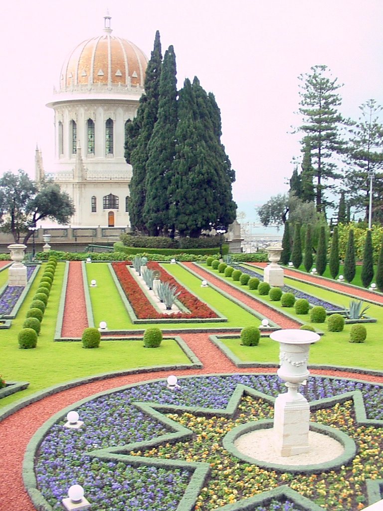 view towards the Shrine of the Báb from the 10th Terrace of the Bahá'í Gardens, highlighting Cedar trees